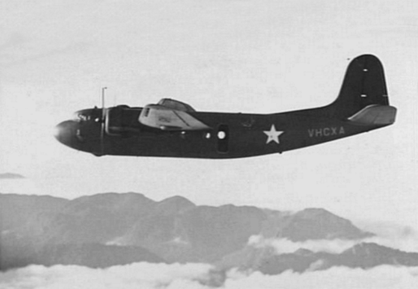 A United States Army Air Force C-110 (VH-CXA) transport aircraft used to carry supplies from Australia to New Guinea. Four DC-5s were purchased by the Netherlands and all four were used to evacuate civilians from Java to Australia in 1942. One was damaged at Kemajoran airport, Batavia, on 9 February 1942, and was captured by the Japanese and later test flown at Tachikawa air force base. The surviving three aircraft were operated by the Allied Directorate of Air Transport and were given the USAAF designation of C-110. Note: The DC-5 c/n 428 was delivered as PH-AXE to the Dutch KLM airline, then became PK-ADB with KNILM. It received the civil registry VH-CXA and was badly damaged at Parafield, South Australia, on 17 August 1942. Parts were used to rebuilt VH-CXC.[1] The AWM date (9 September 1942) has to be incorrect.